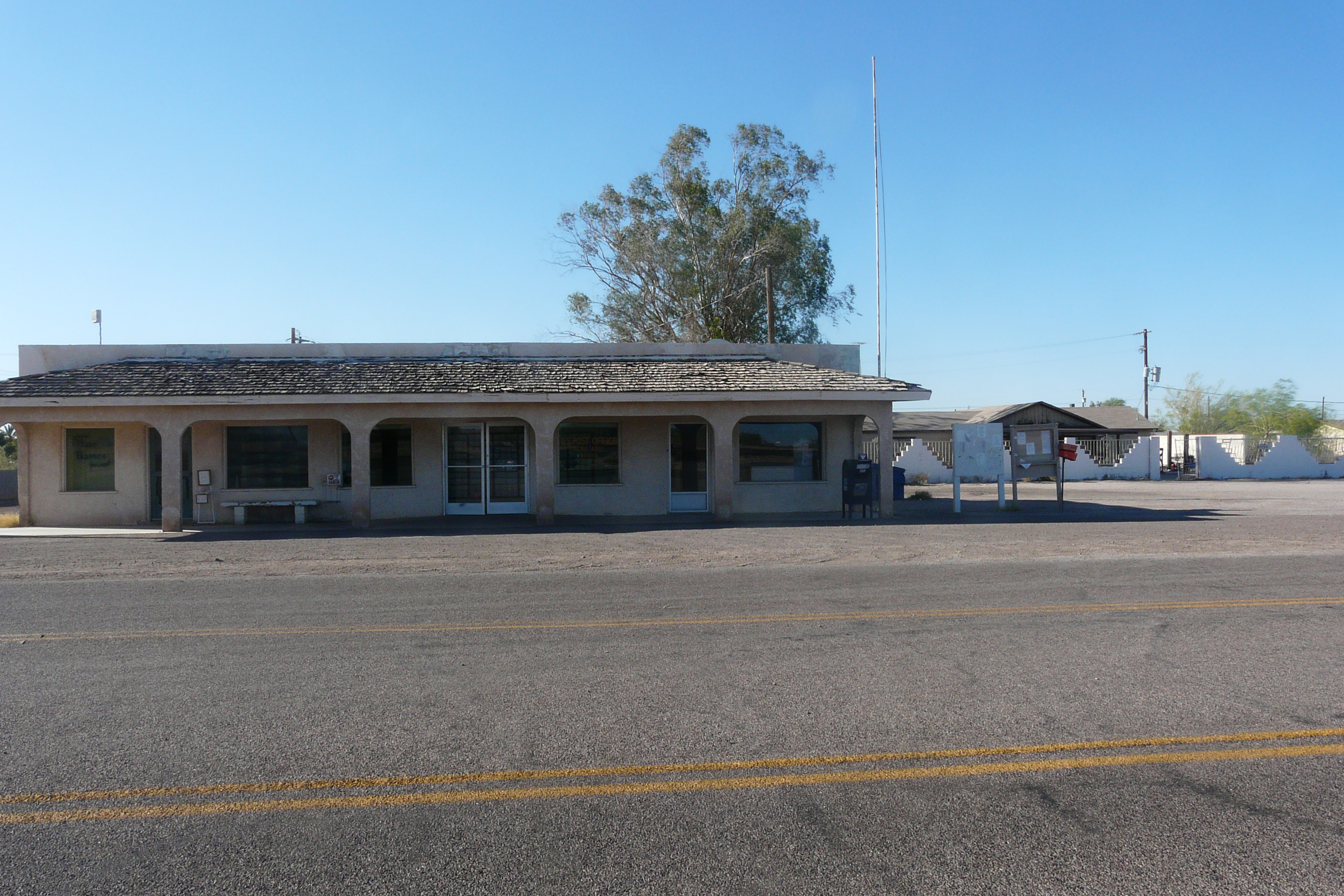 The post office in Tacna, Arizona. One of the few remaining businesses open in the community.